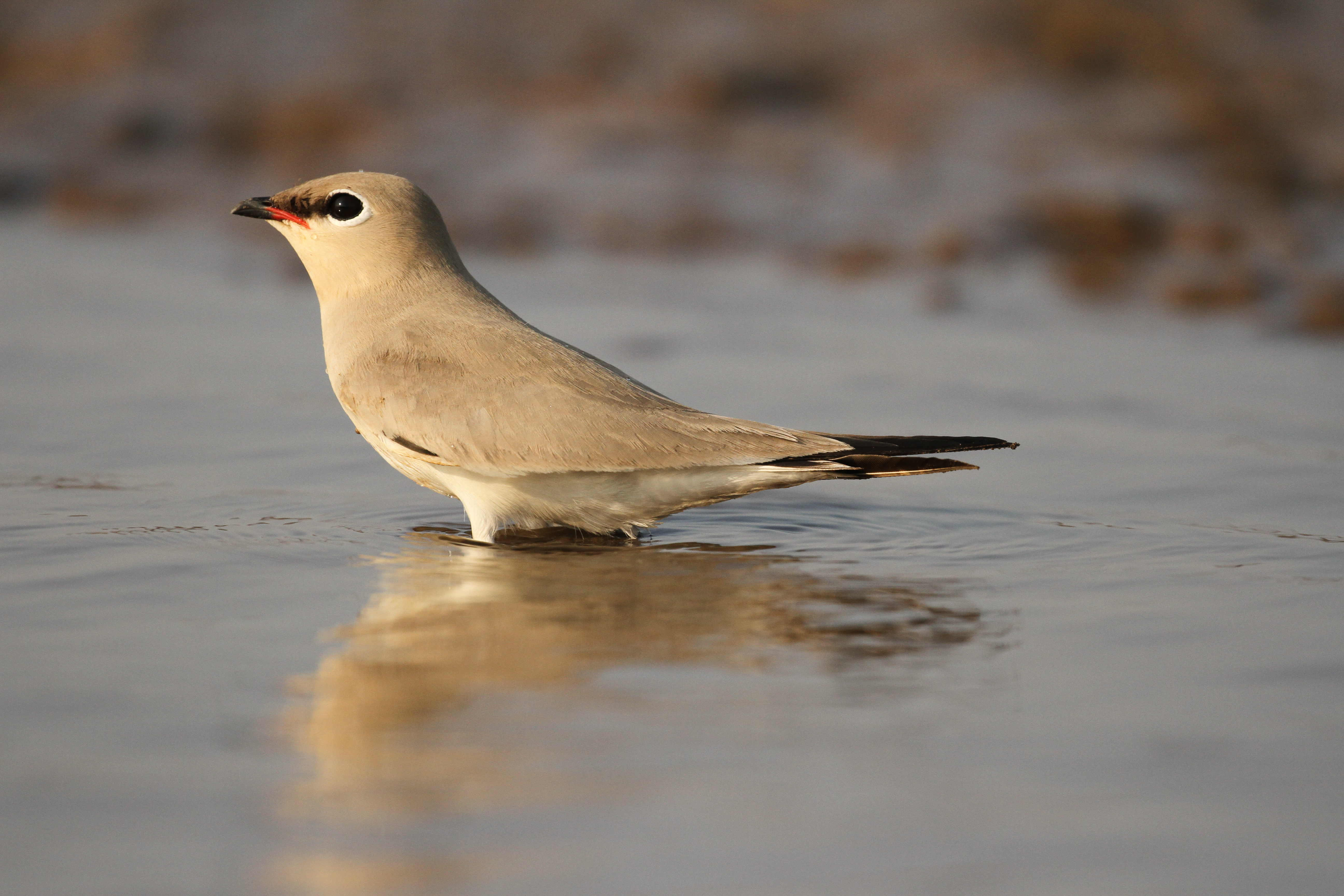 Birds of India